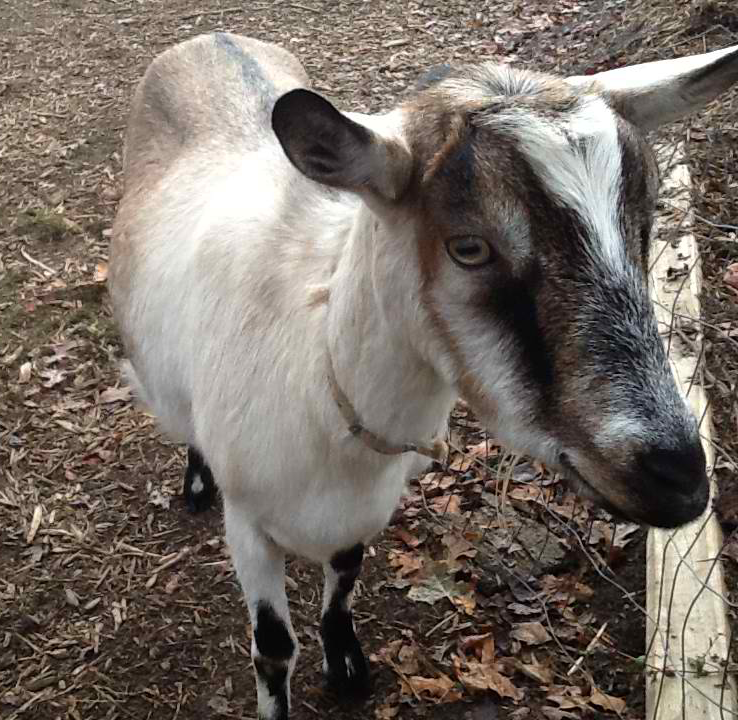 Female Alpine goat.